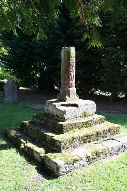 Preaching Cross Just inside the gate of Shocklach Church is this ruined monument. Further information has been submitted by a former resident of Holt, that indicates that this would be a preaching cross, or at least the remains of one. These locations were used by Monks as places at which they preached to the public.